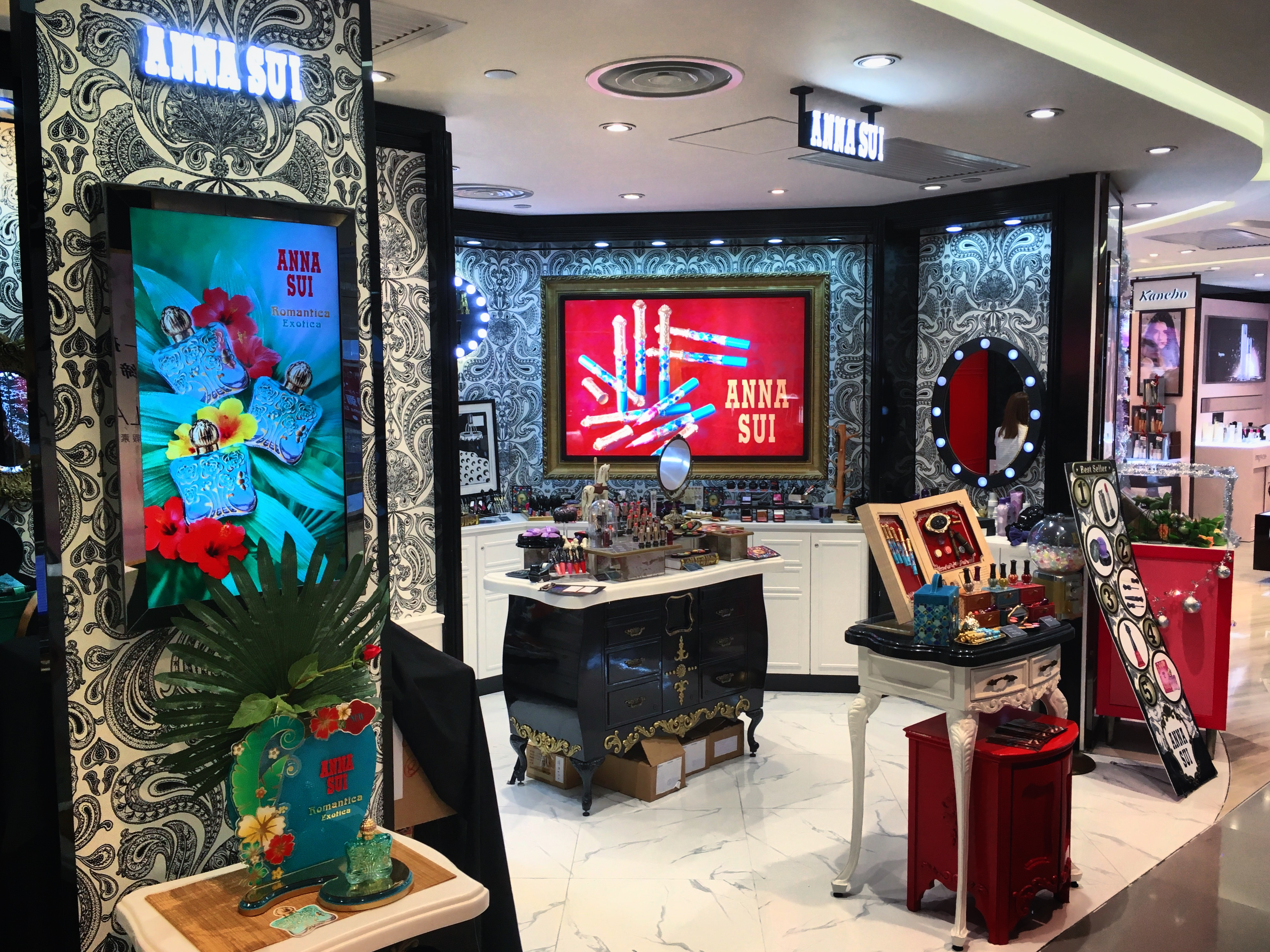 The Anna Sui store at Sogo, Causeway Bay in Hong Kong.